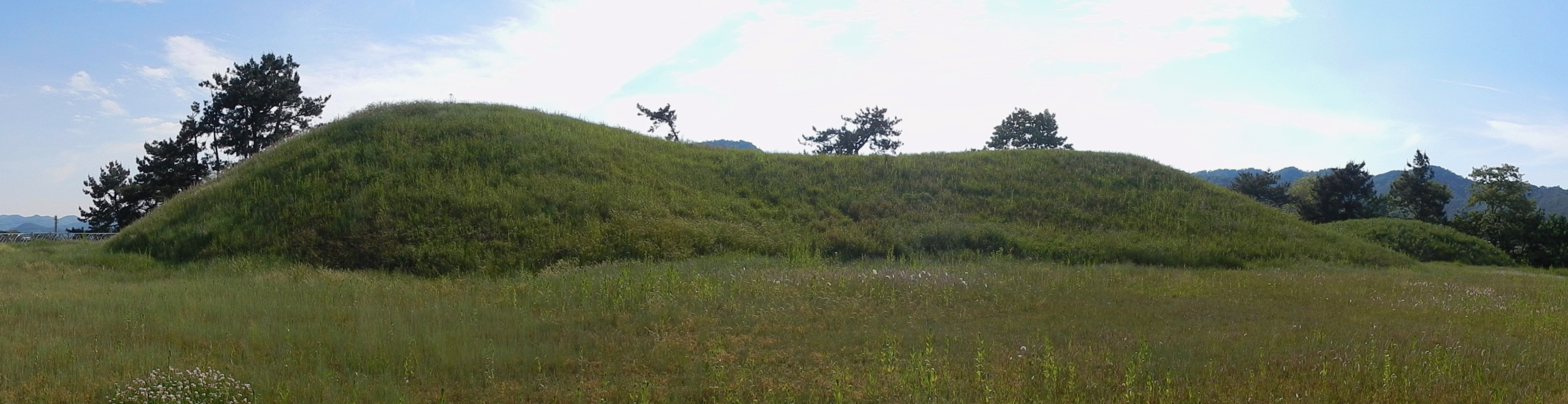 Hampyeong Yedeok-ri Sindeok Tumulus No.1